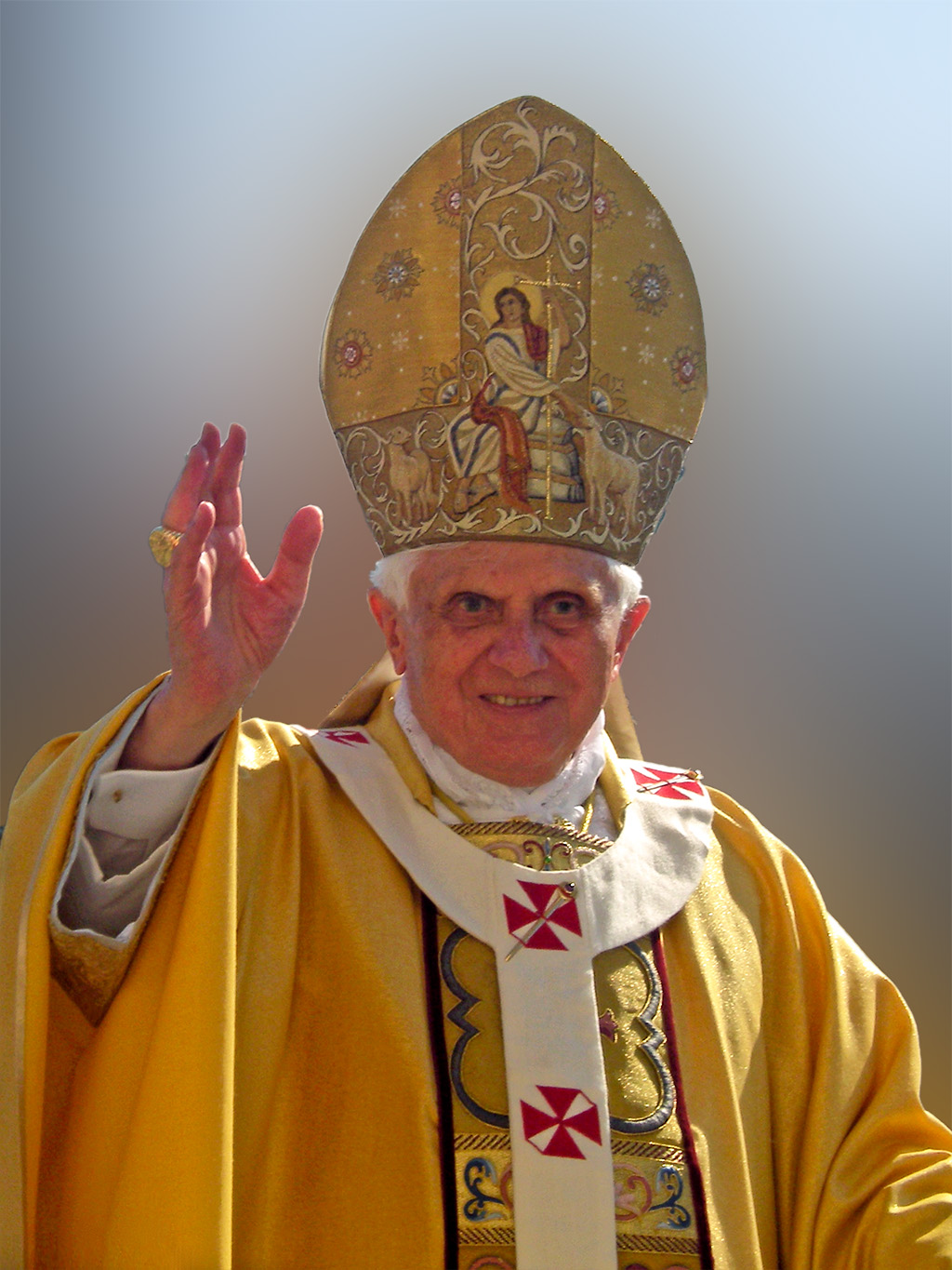 Pope Benedict XVI performing a blessing during the canonization mass in St. Peter's Square in Rome, Italy on Sunday October 12, 2008